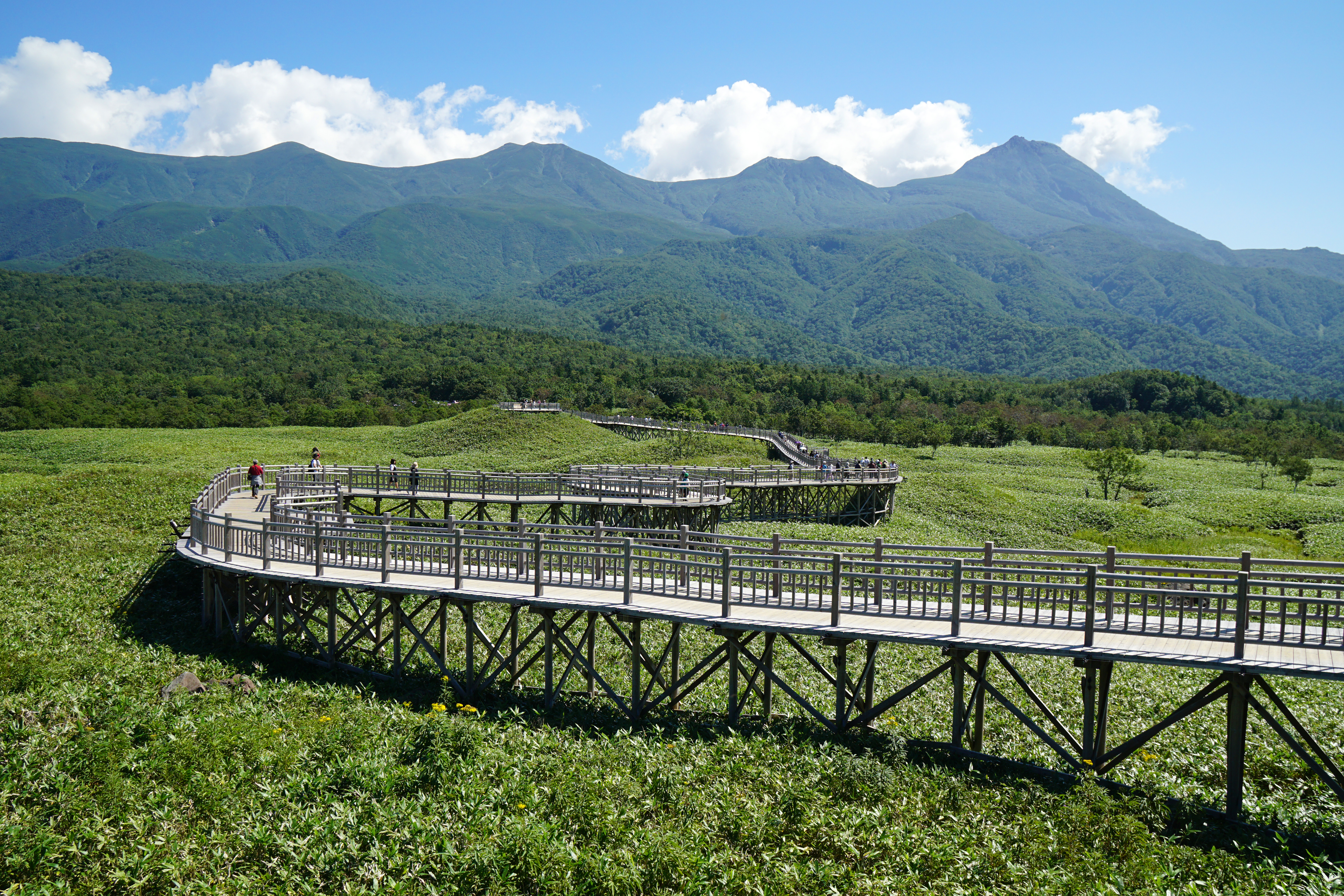 At Shiretoko Goko Lakes in Shari, Hokkaido prefecture, Japan.